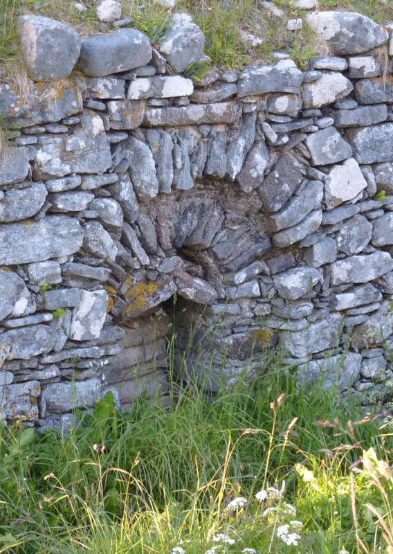 Cille Bharra, Barra, Outer Hebrides, Scotland - entrance in northern wall